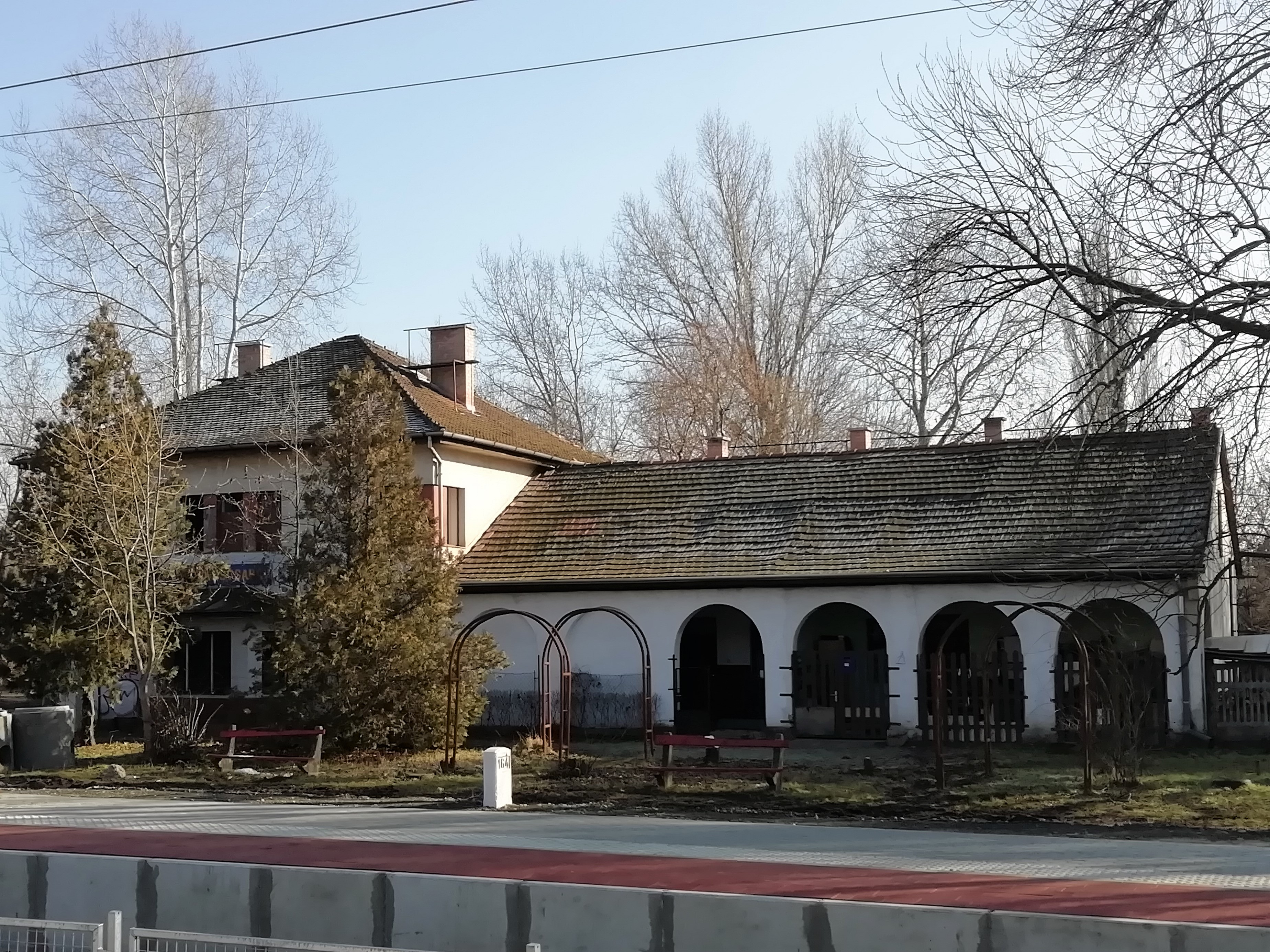 Rákoscsaba train station building (out of use, currently private home)